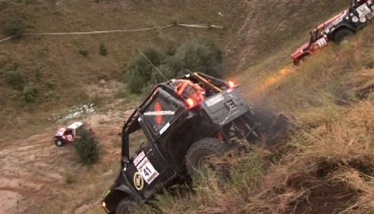 Off-road